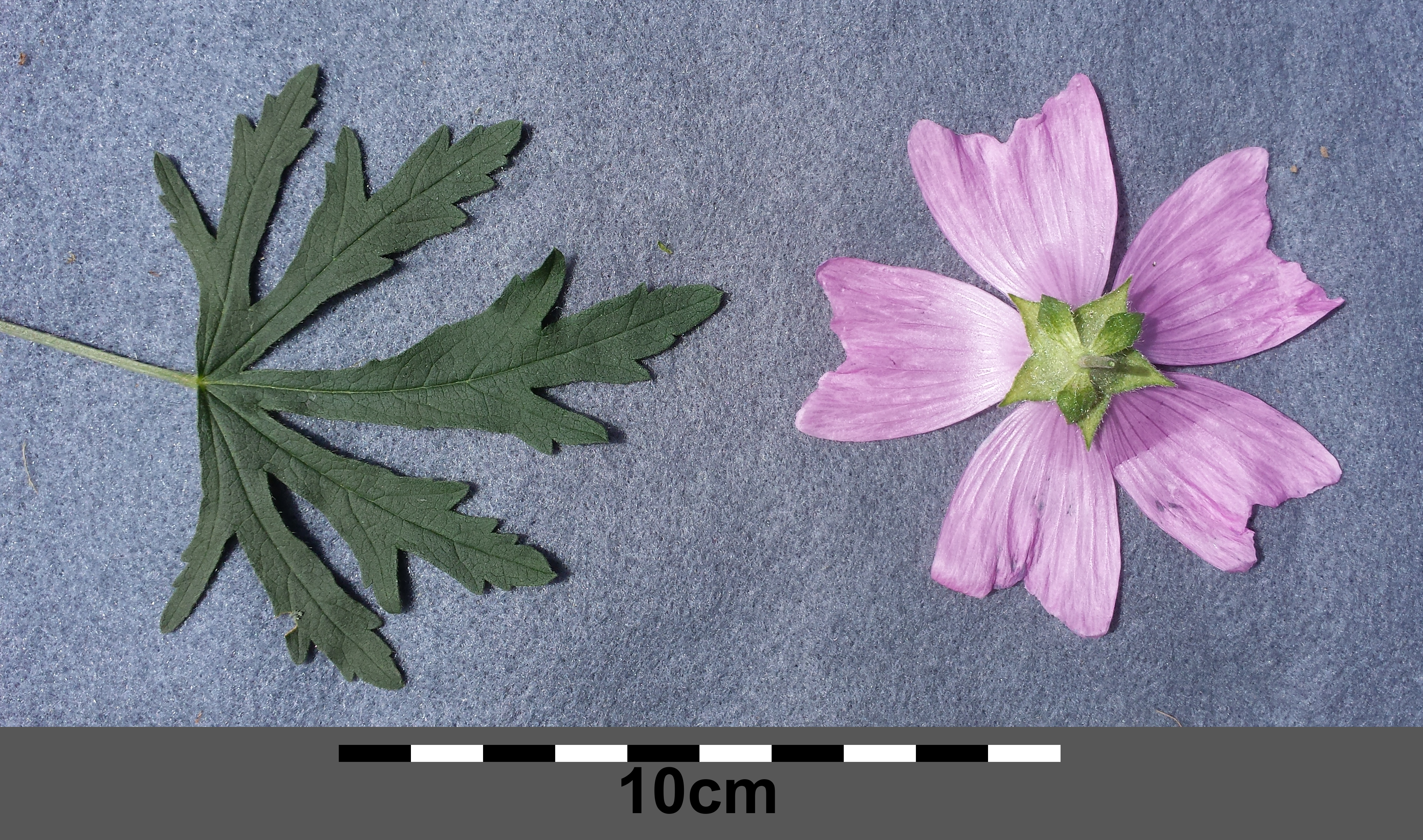 Leaf and flower (back side) Taxonym: Malva alcea ss Fischer et al. EfÖLS 2008 ISBN 978-3-85474-187-9 Location: Merkersdorf, district Korneuburg, Lower Austria - ca. 250 m a.s.l. Habitat: ruderal meadows